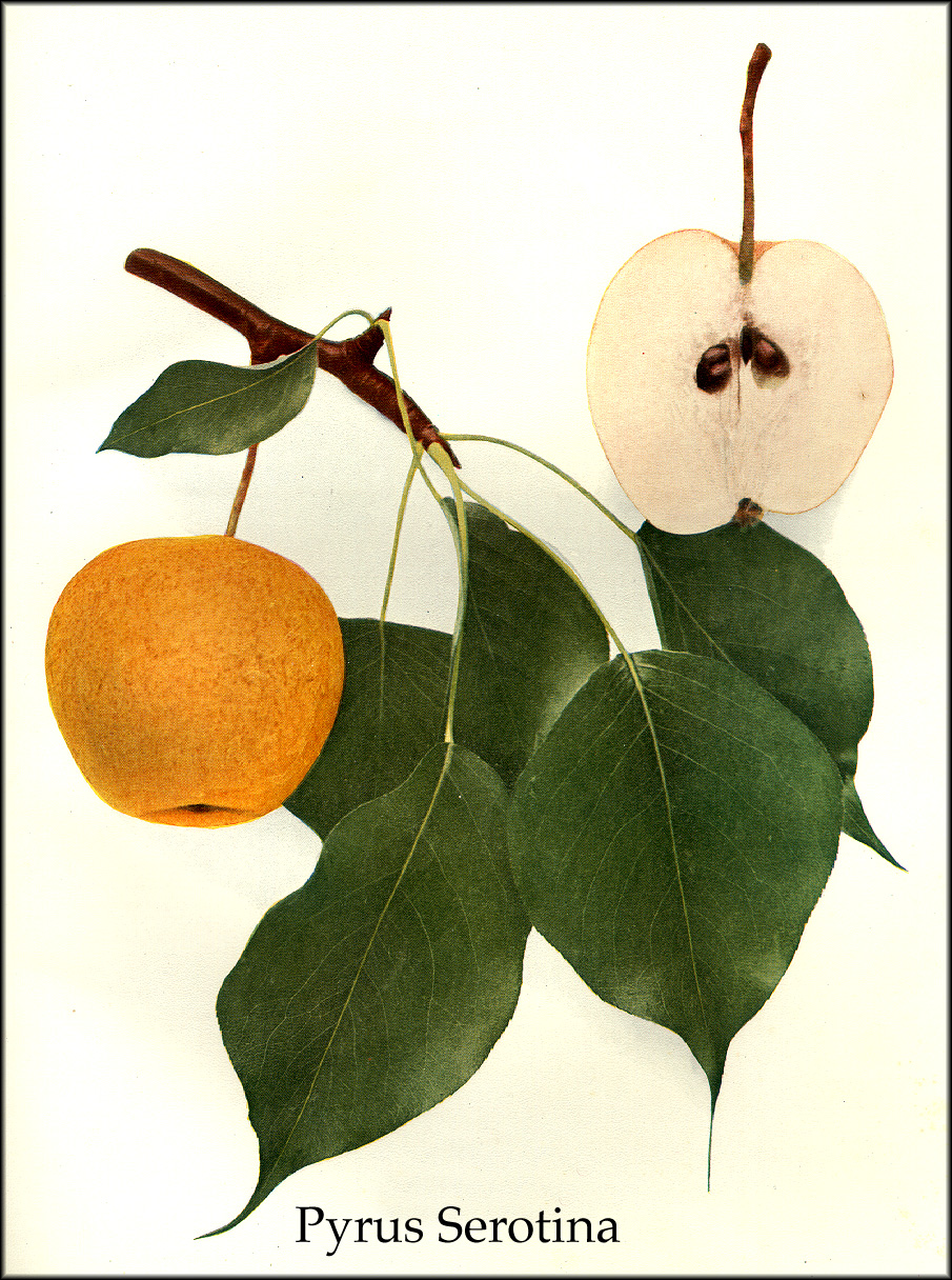 A colour plate from The Pears of New York (1921) depicting Pyrus serotina (pyrifolia).